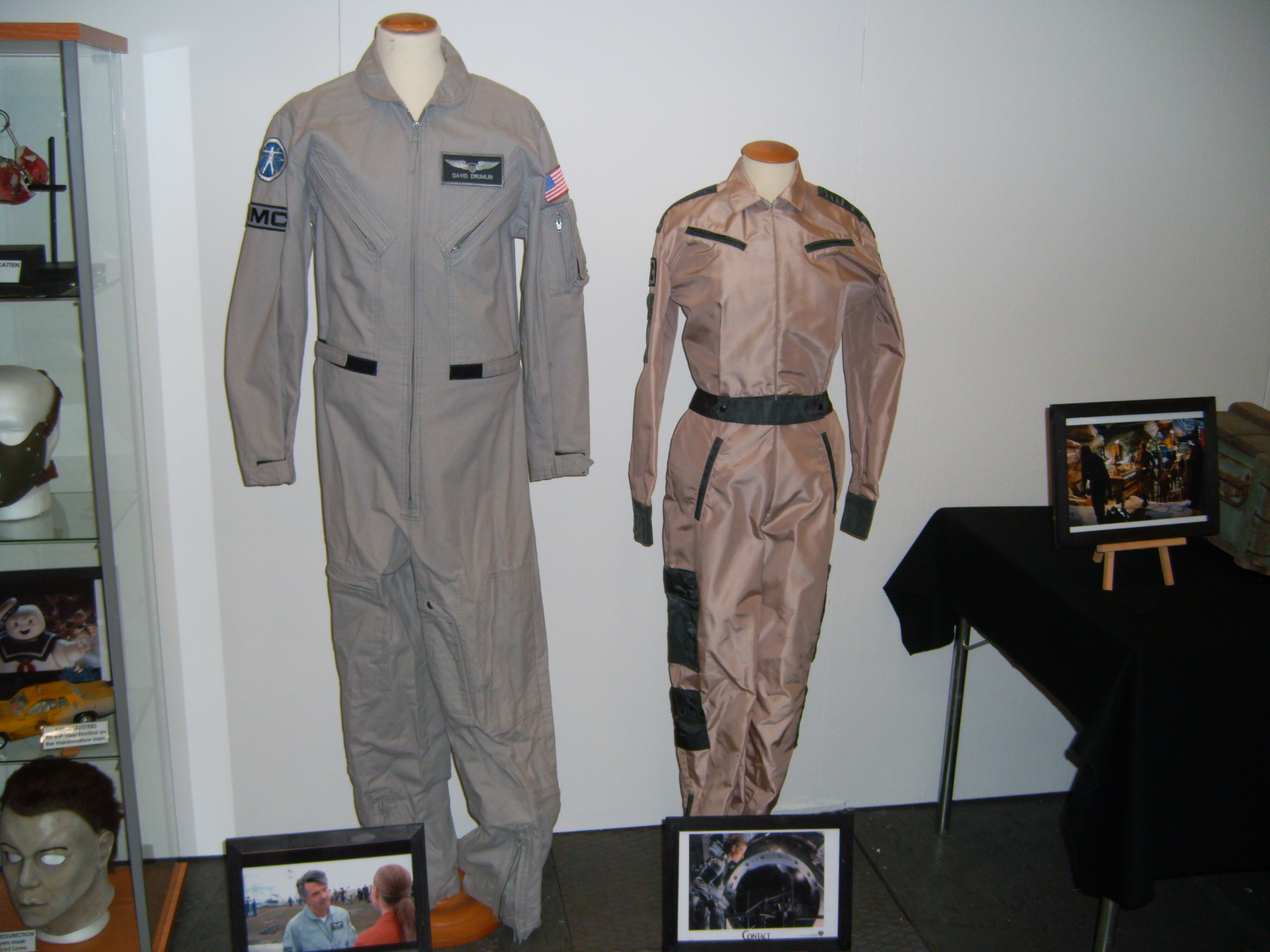 Uniforms from 1997 film Contact. Photo from the Scandinavian Sci-Fi, Game & Film Convention in Stockholm.